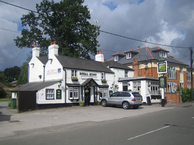 Ascot: Royal Hunt public house A Greene King house on New Road.